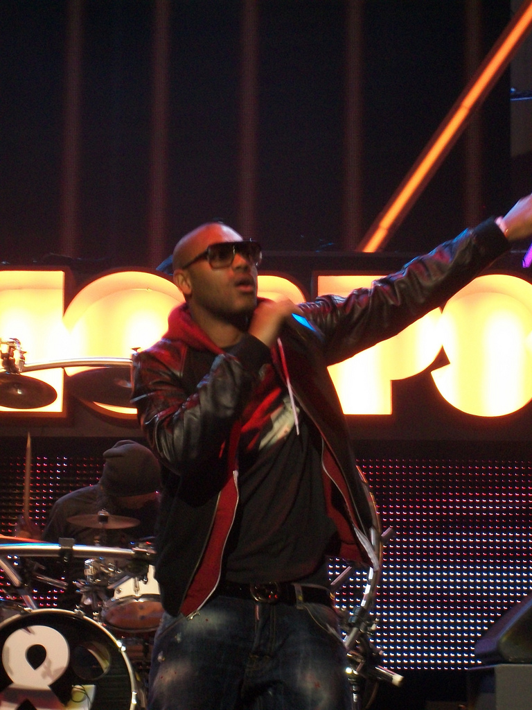 Kano - Orange Rockcorps London